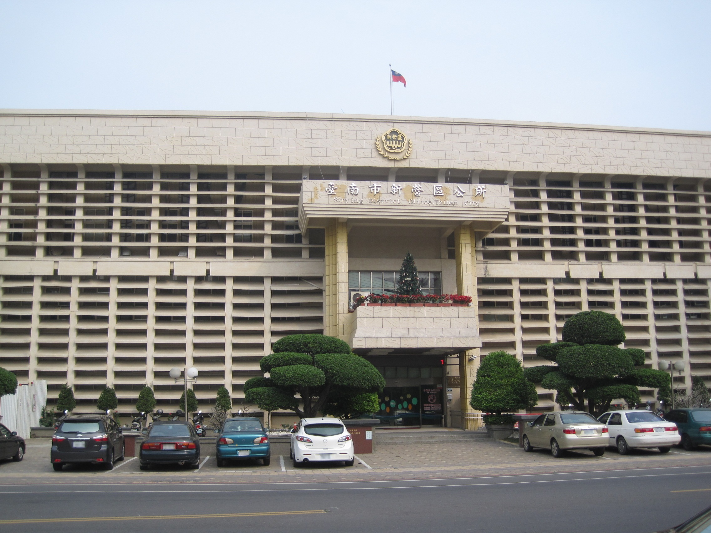 Xinying District Office, Tainan City.中文（台灣）: 臺南市新營區公所。